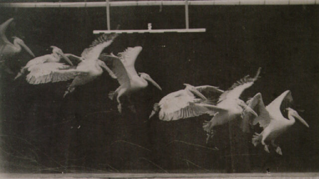 ภาพการเคลื่อนไหวของนกกระทุง โดยมาเรย์ ในปี1882